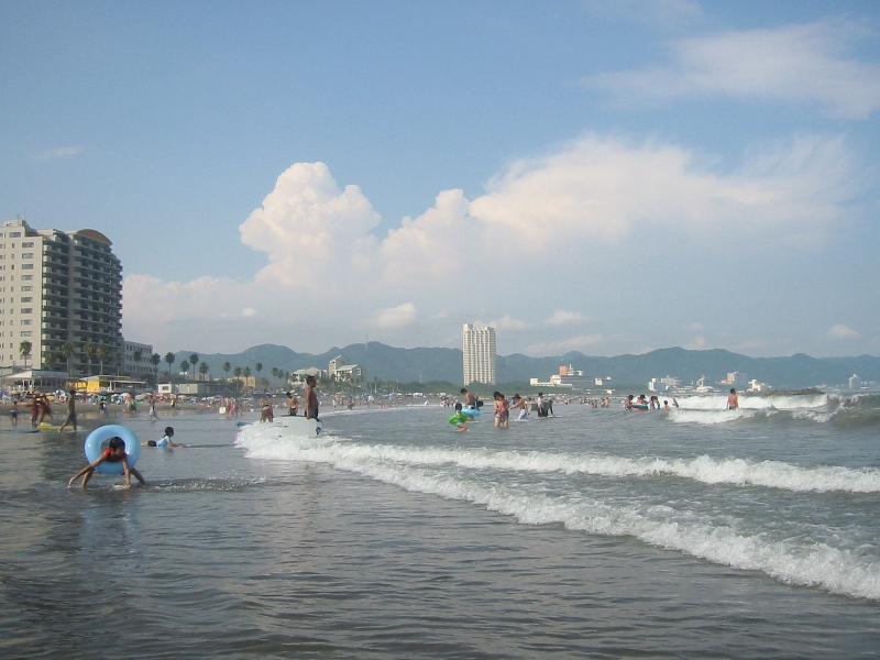 Maehara beach in Kamogawa. Personal photograph, August 2006. Canon PowerShot S110